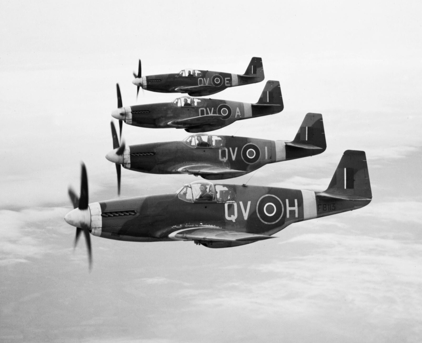 Four Royal Air Force North American Mustang Mark IIIs (FB113 "‘QV-H"’ nearest) of No. 19 Squadron RAF based at Ford, Sussex (UK), flying in starboard echelon formation. The aircraft have been painted with white identity markings on the nose and wings to prevent mis-identification as German Messerschmitt Me 109s.